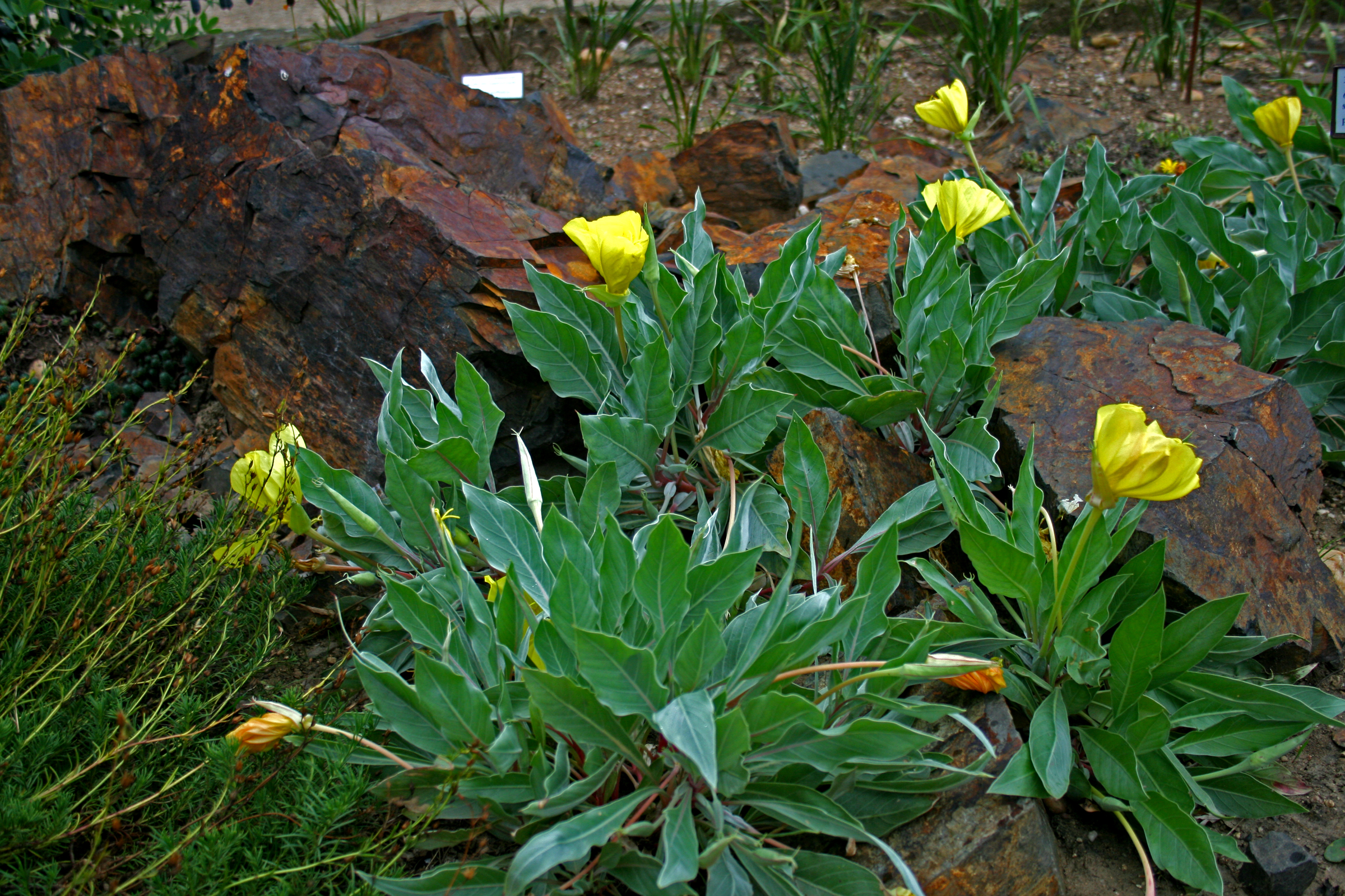 (Oenothera macrocarpa) in Prague Botanic Garden, Prague, Troja